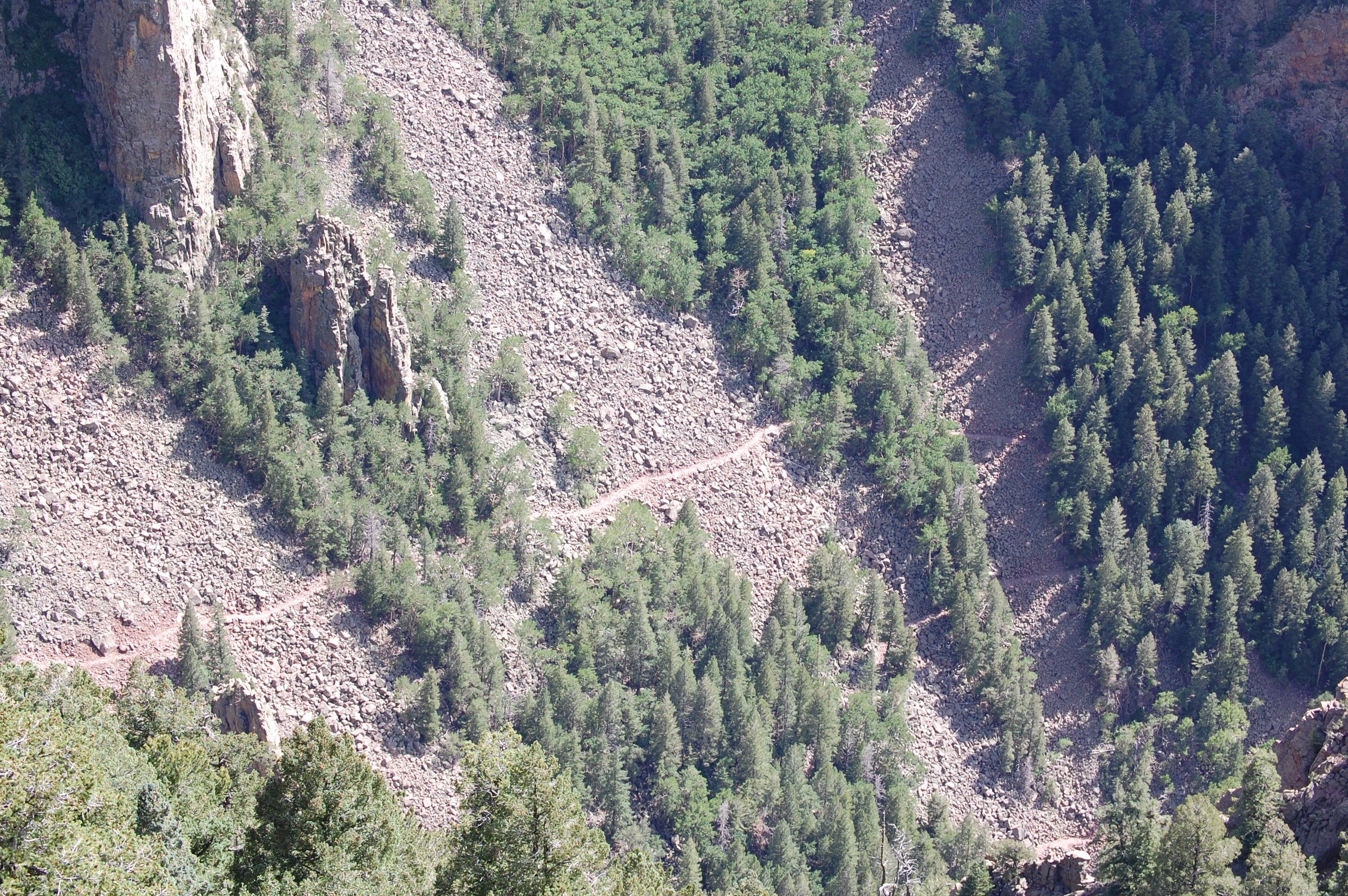 This is a picture I took of the La Luz trail, one of the latter switchbacks in the rockslide. I took the picture from a little ways down the Sandia Crest spur trail (that connects the crest to La Luz). I think I used the 55-200 mm f/4-5.6G ED AF-S DX Zoom-Nikkor Lens, but possibly it was the 18-55 mm f/3.5-5.6GII ED AF-S DX Zoom-Nikkor Lens.